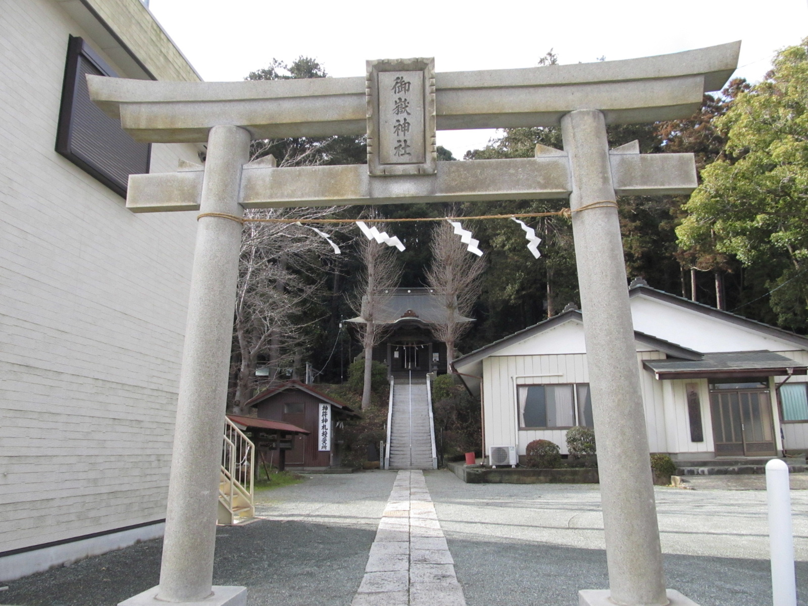 Torii at Mitake-ōkami in Fujisawa City, Kanagawa Prefecture, Japan